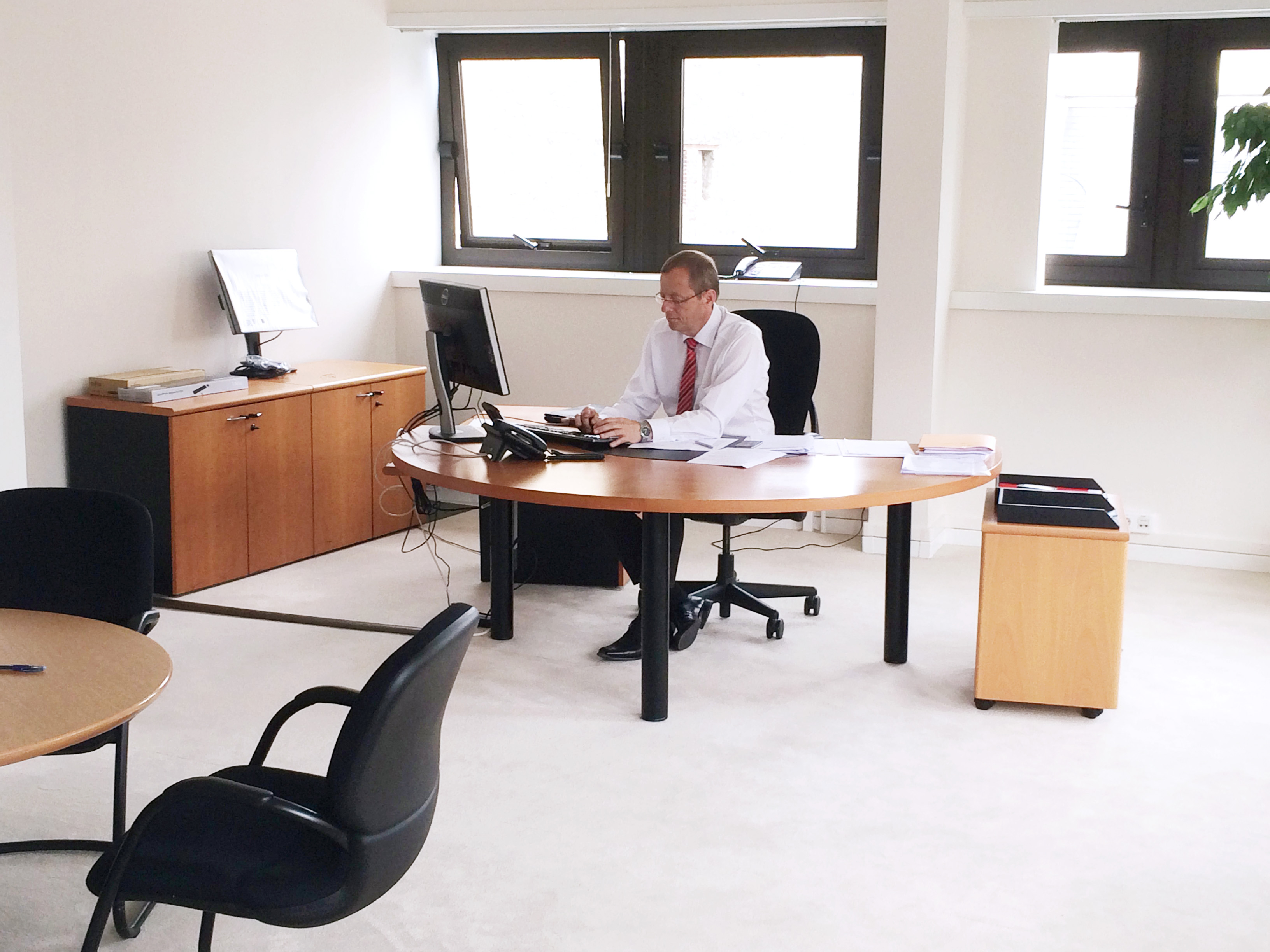 Johann-Dietrich "Jan" Woerner, Director General of the European Space Agency (ESA), took up duty on 1 July 2015 at ESA Headquarters, Paris, France. The image depicts him in his new office.